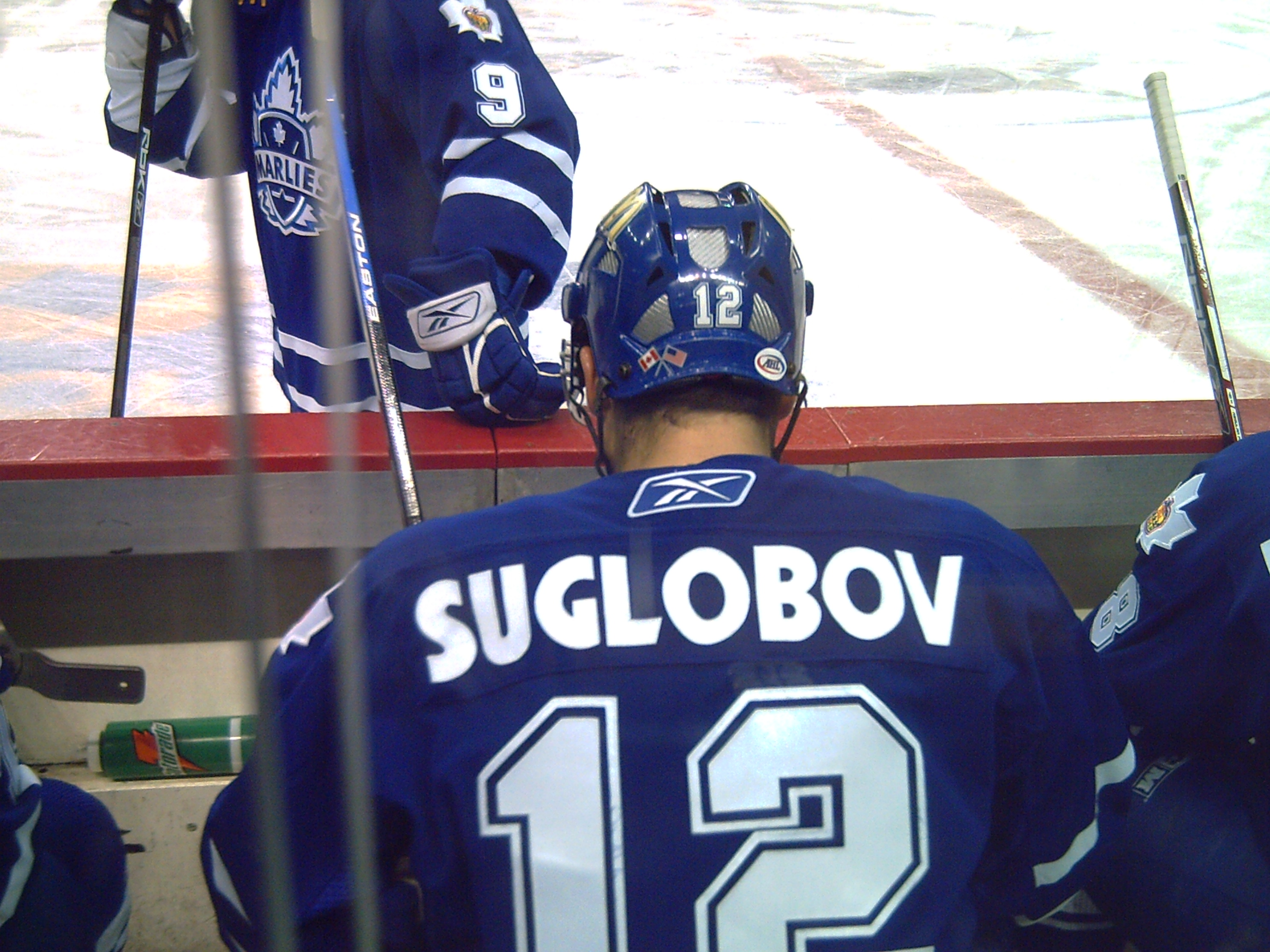 author: Daniel Hausner 16 Feb 2007 Bulldogs-Marlies